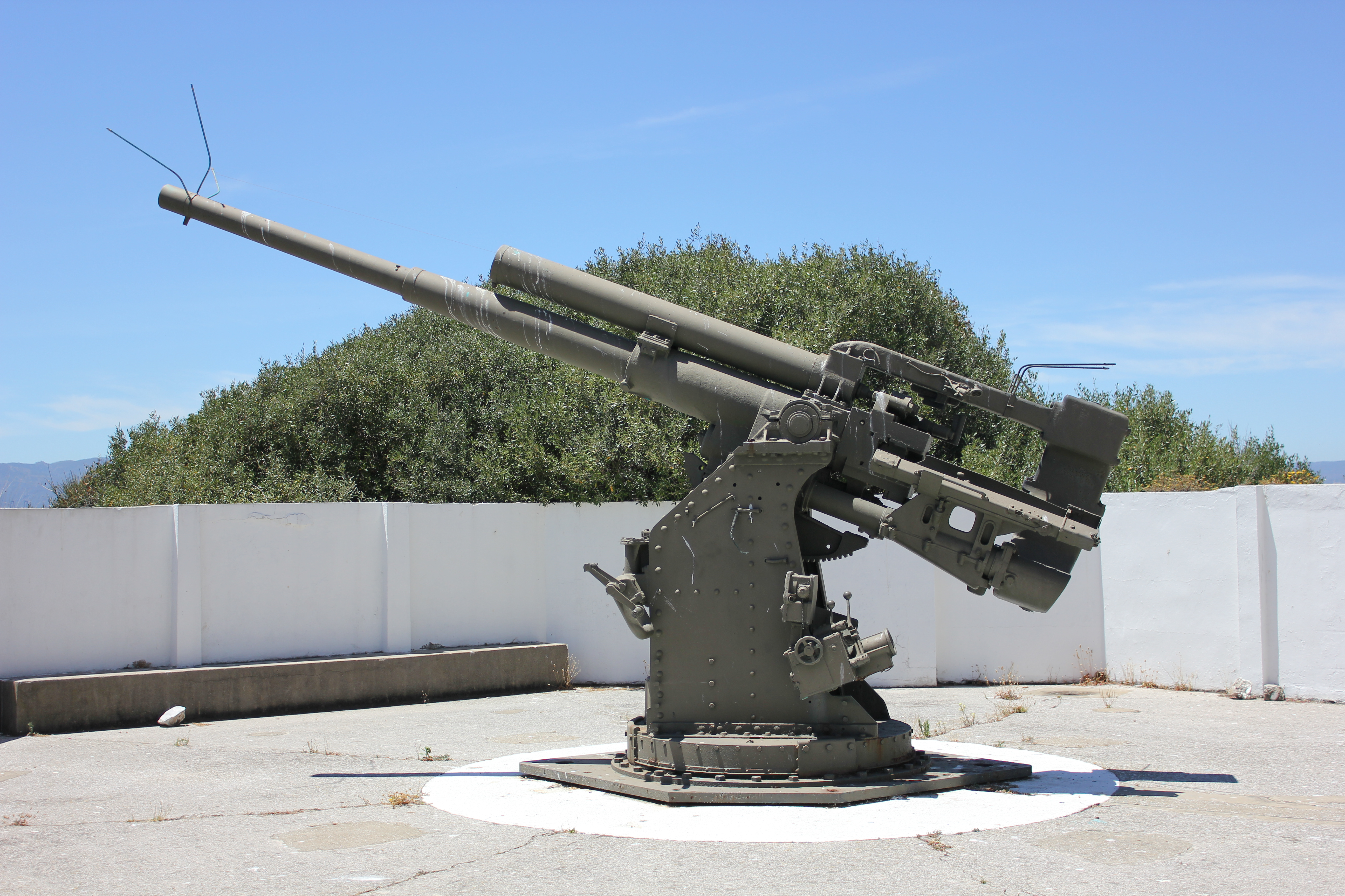 Smaller gun next to the 100 Tonne Gun, Gibraltar